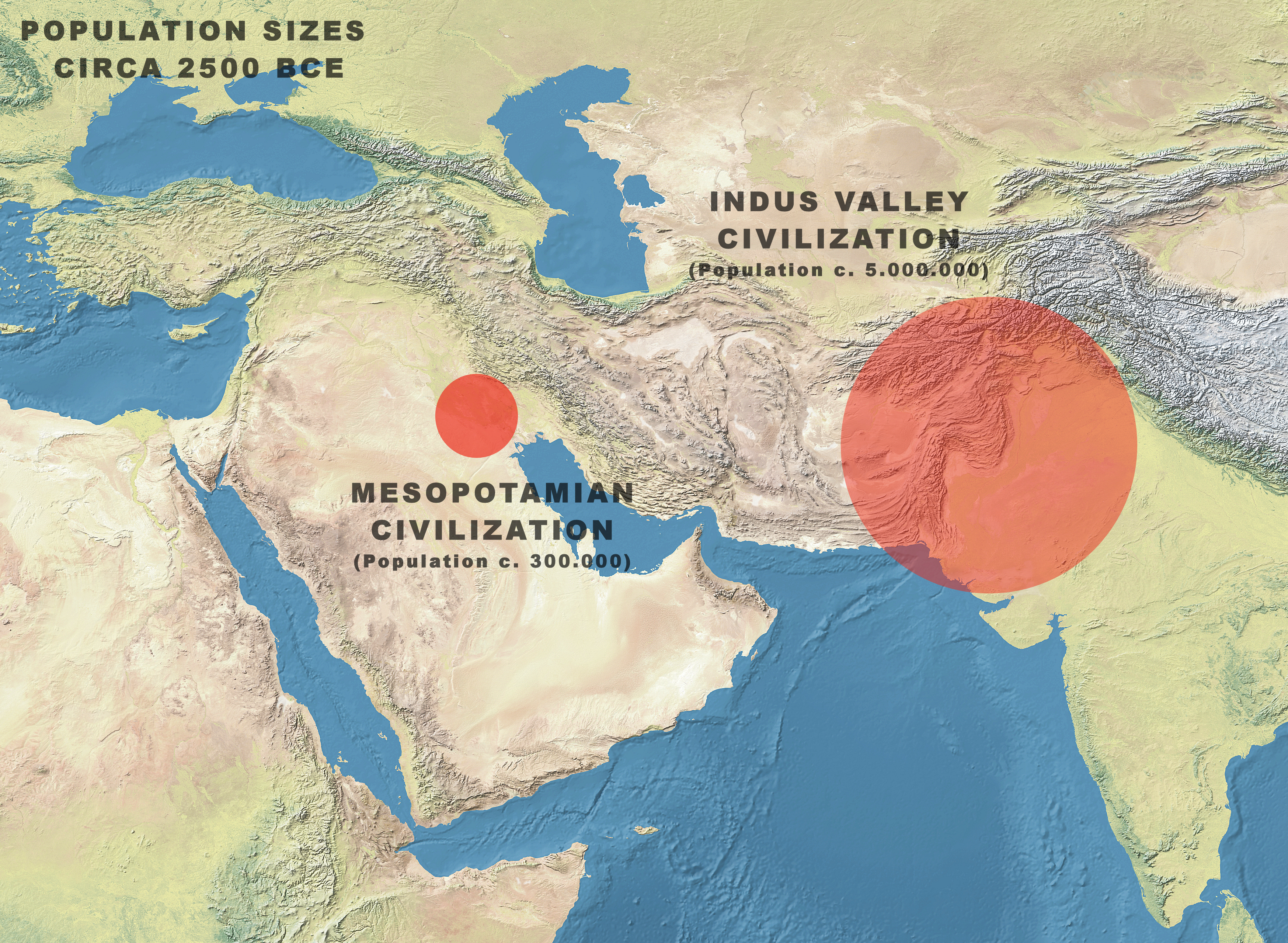 Population sizes circa 2500 BCE